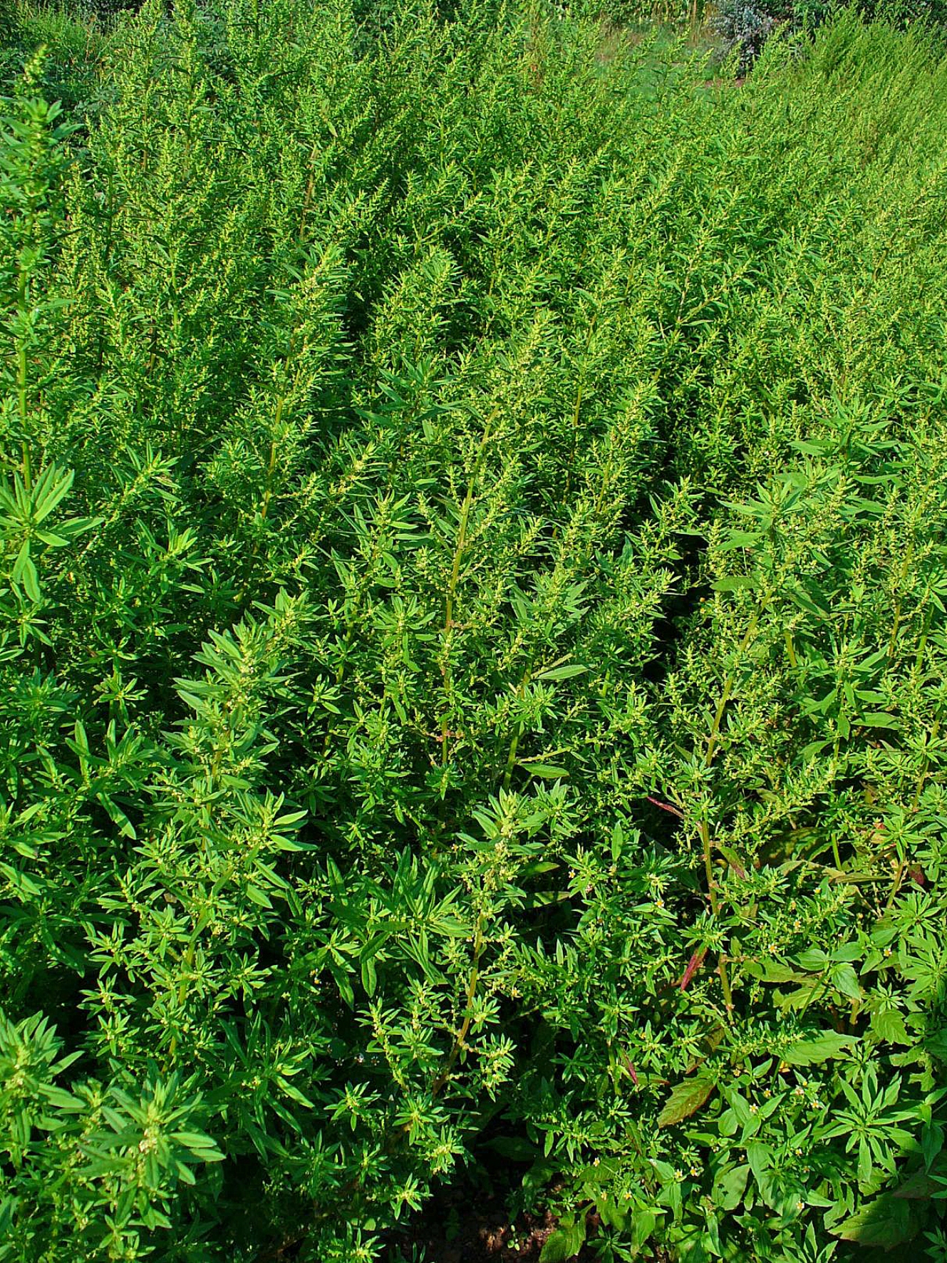 Dysphania ambrosioides (L.) Mosyakin & Clemants, Syn.: Chenopodium ambrosioides L., Amaranthaceae, Epazote, Wormseed, Jesuit's Tea, Mexican Tea, Herba Sancti Mariæ, habitus. The blooming plant is used in homeopathy as remedy: Chenopodium ambrosioides (Chen-a.)